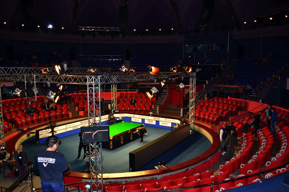 Bucharest: Circul Globus (Globus Circus) Home of the European Masters or European Open (snooker) since 2016.